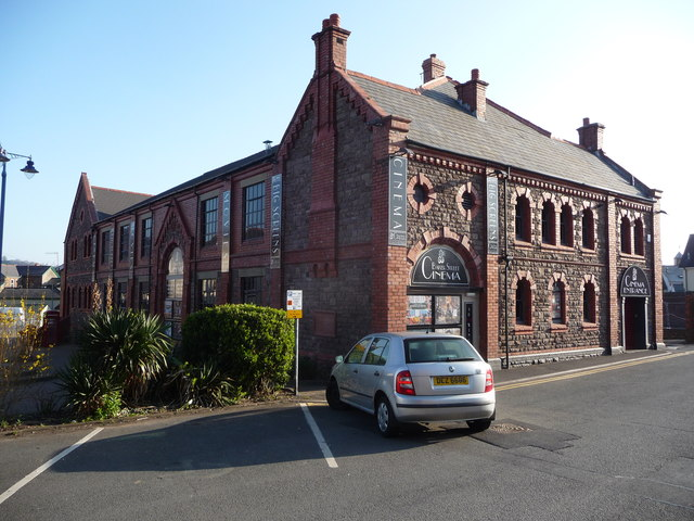 Baker Street Cinema, Abergavenny